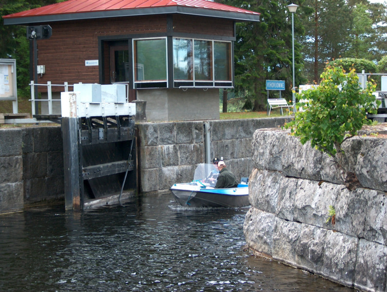 Vihovuonne Canal lock in Heinävesi, Finland.